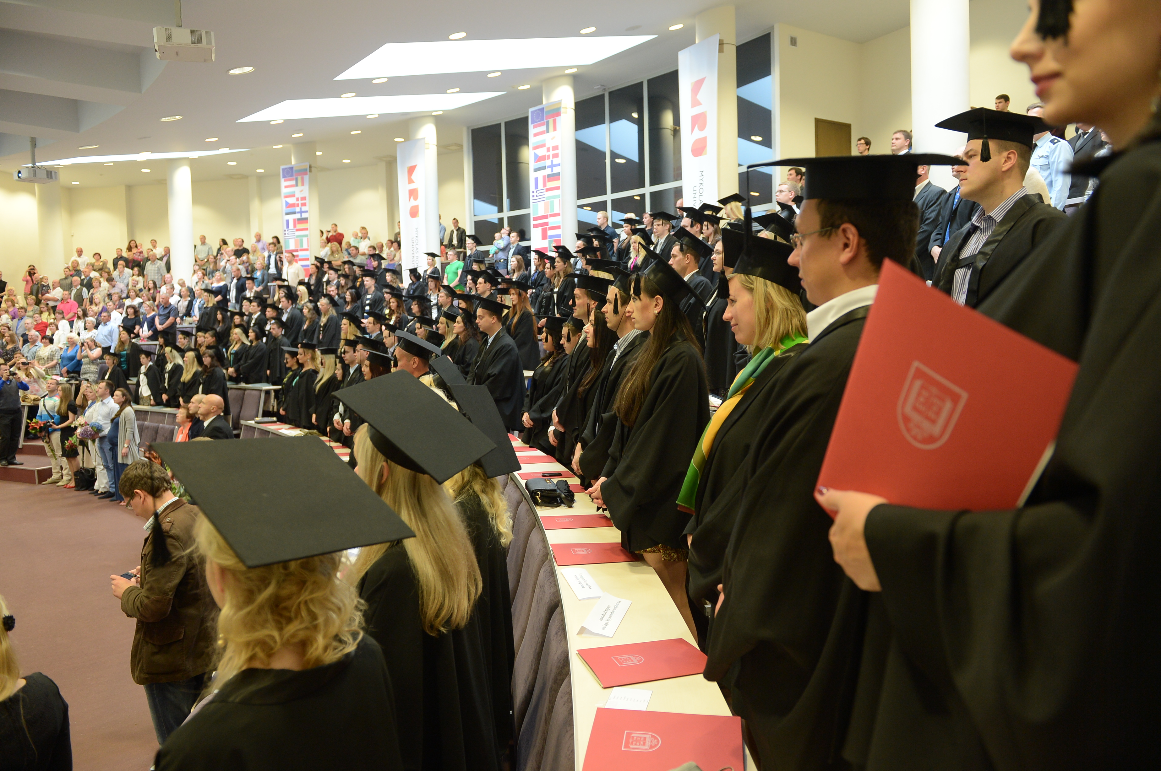 Graduation ceremony at MRU